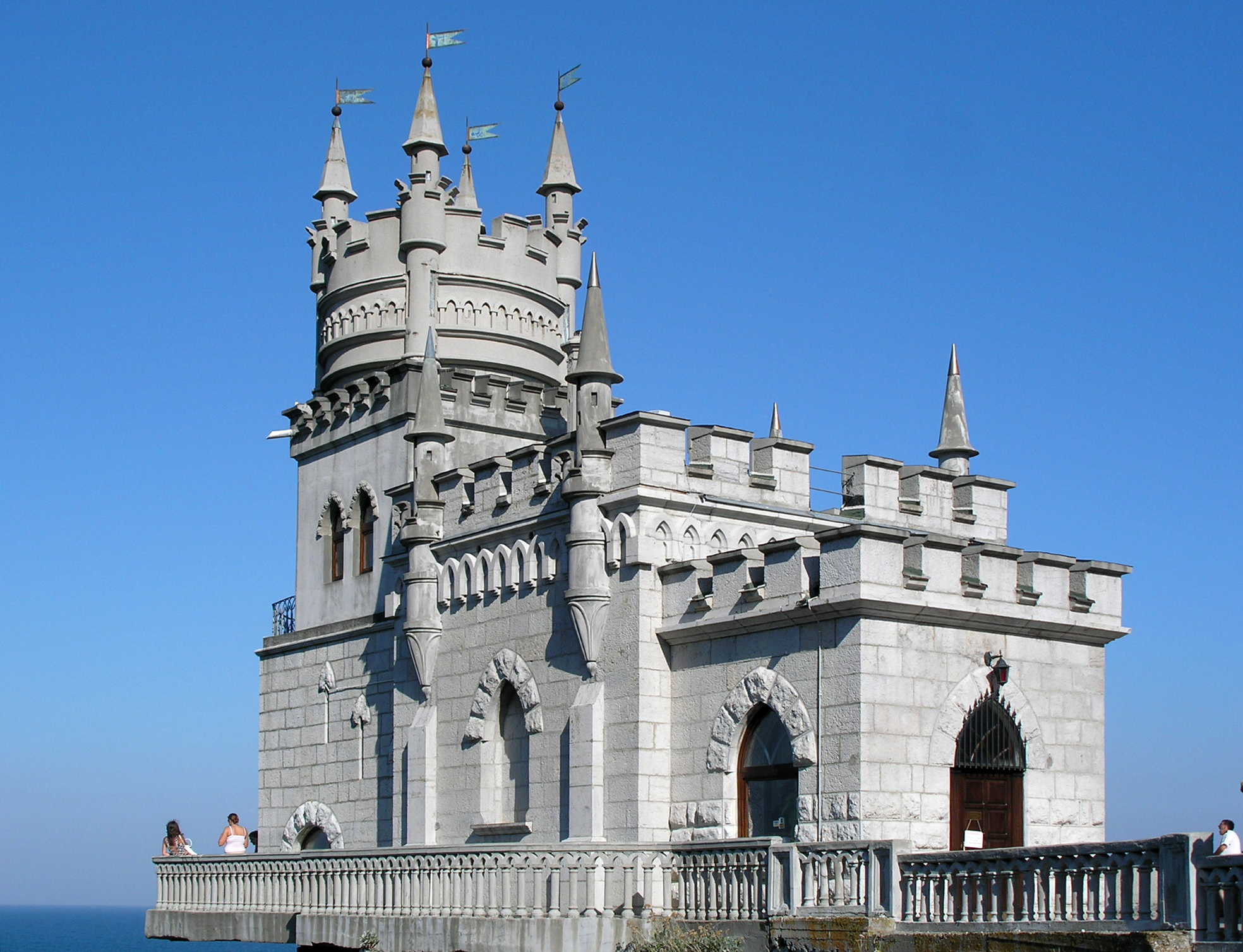 The Swallow's Nest, one of the Neo-Gothic châteaux fantastiques near Yalta, Ukraine